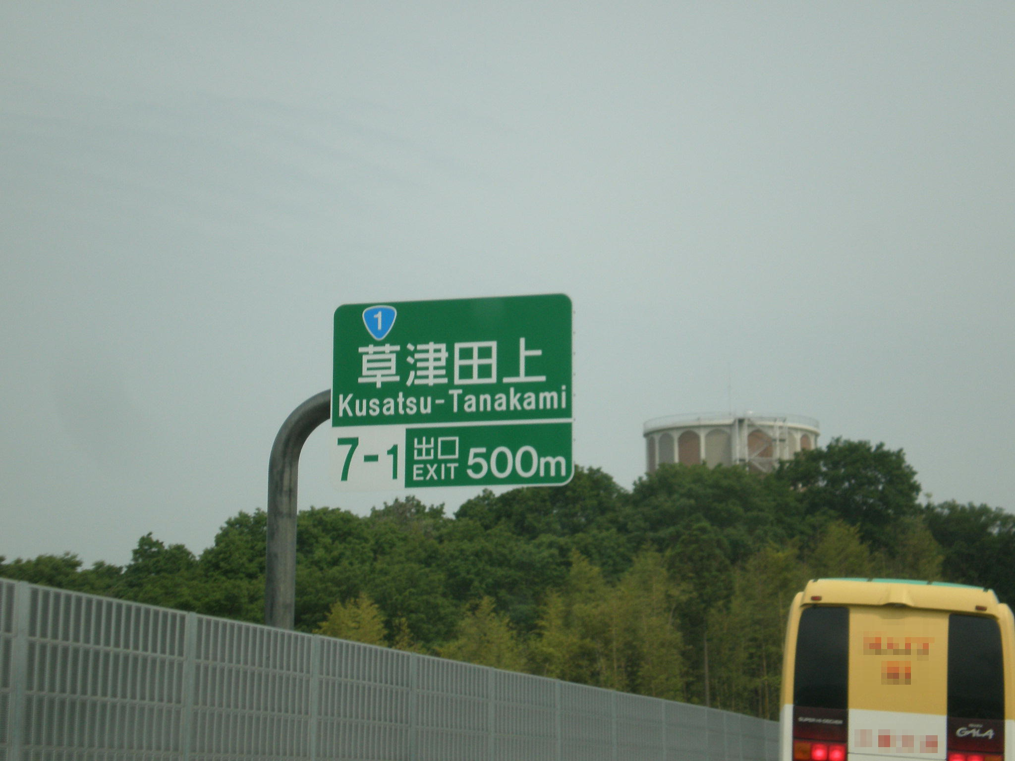 Exit guide sign of Kusatsu-tanakami interchange. I took this image at Hirano-2chome Otsu City Shiga Pref., Japan.